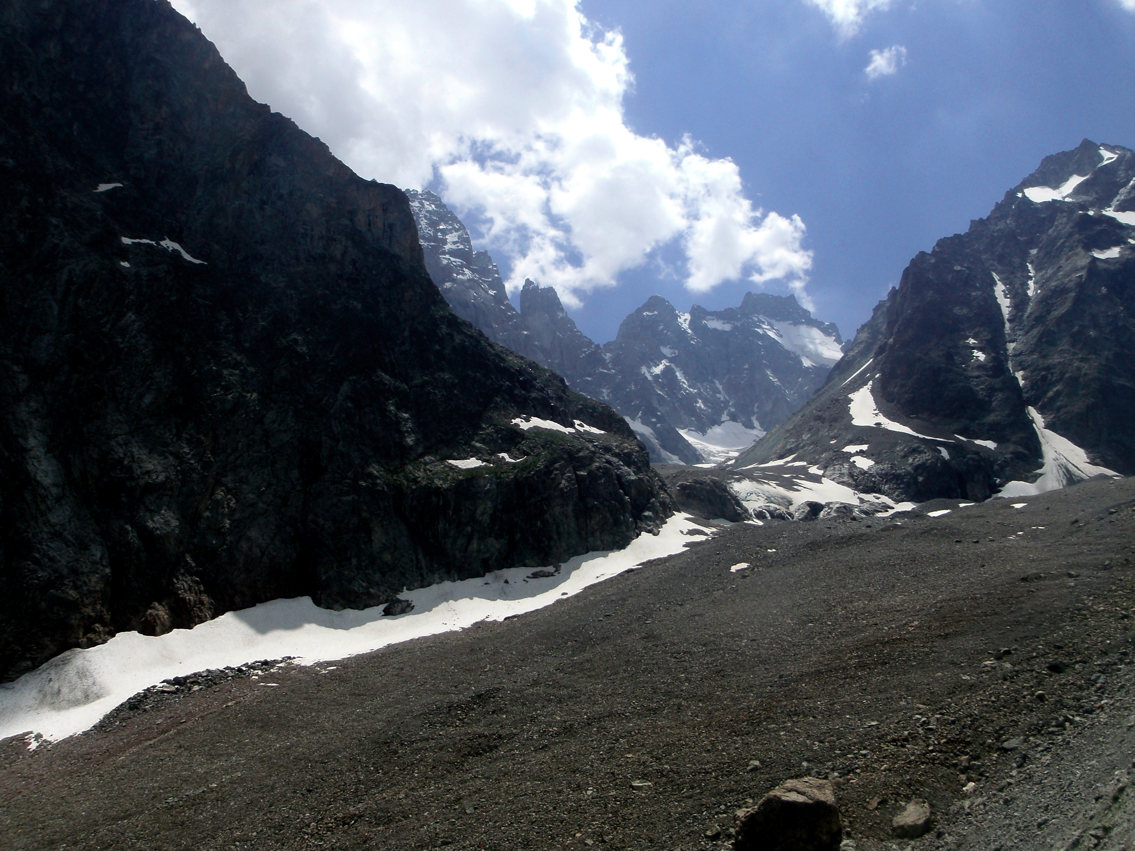 Glacier Noir, situated in Hautes Alpes, France. In the background the peaks of Pic Sans Nom (3.914 m), Pic du Coup de Sabre (3.699 m) and Ailefroide (Pointe Fourastier, 3.908 m, Ailefroide Centrale, 3.928 m). Photo was taken 12/07/2010.